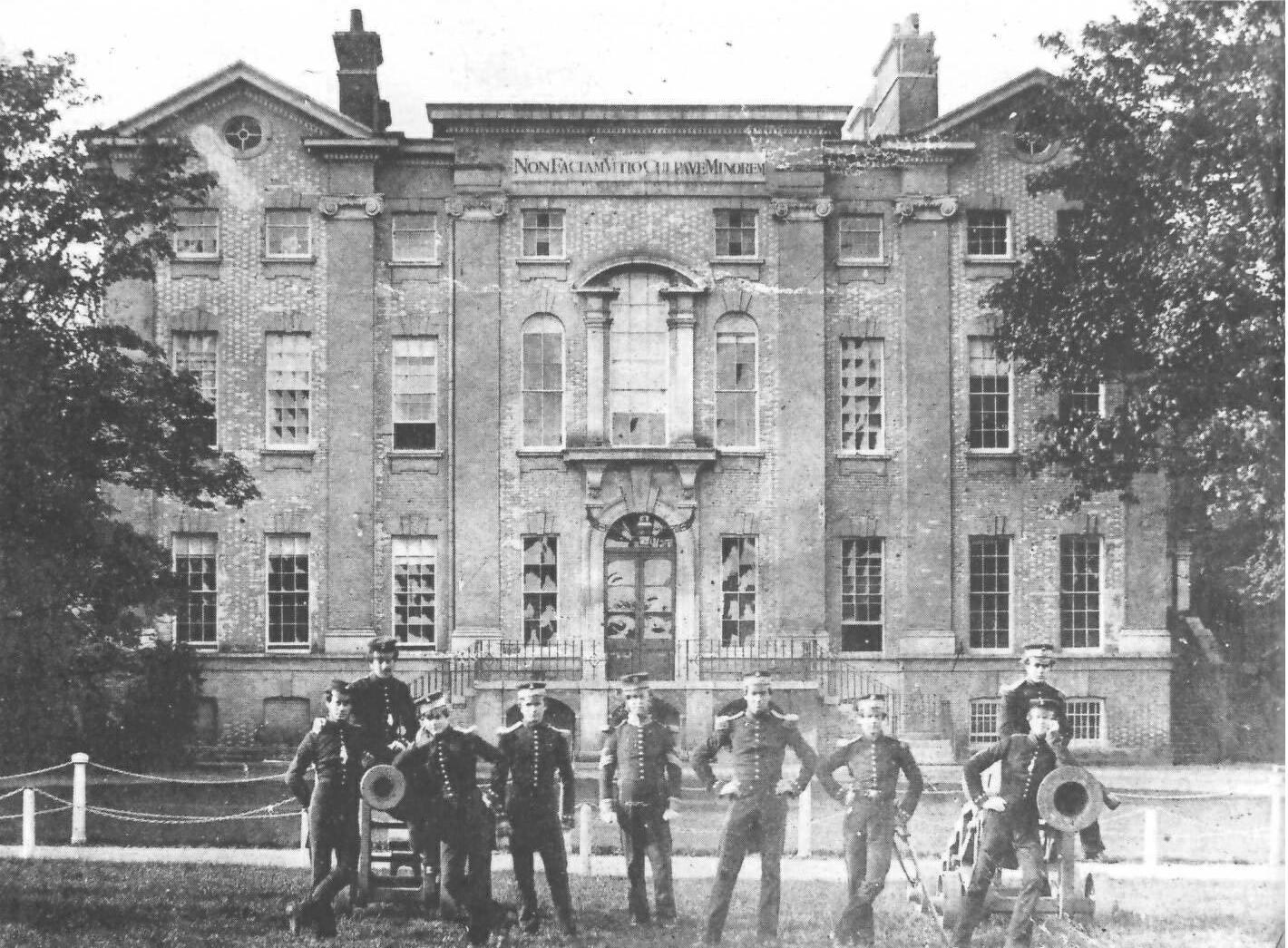 Photo of Addiscombe Place, Surrey, c.1859, at that time housing Addiscombe Military Academy, with 9 cadets posing in foreground.